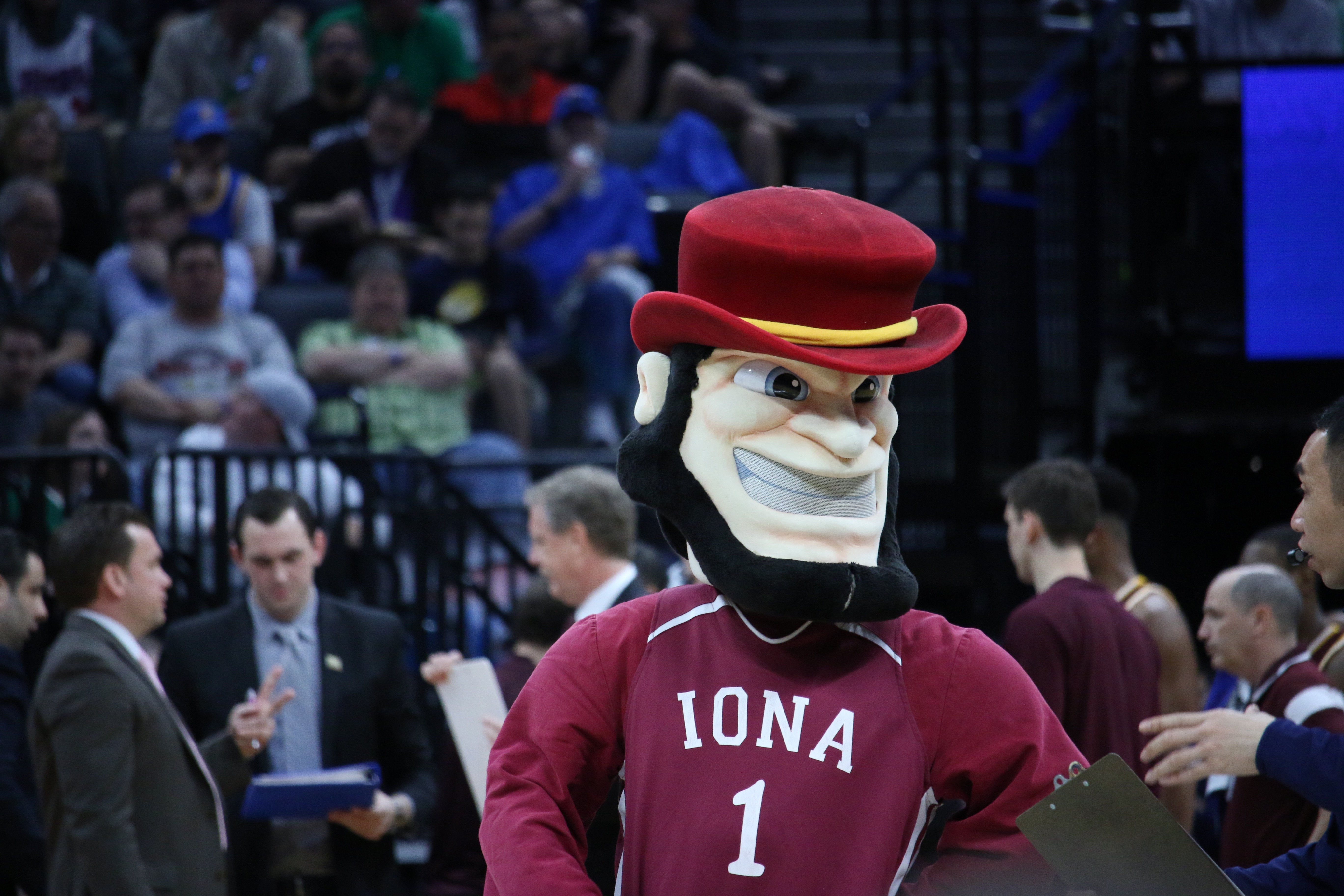 Killian (Mascot) at the March Madness Round of 64 in Sacramento, CA in 2017